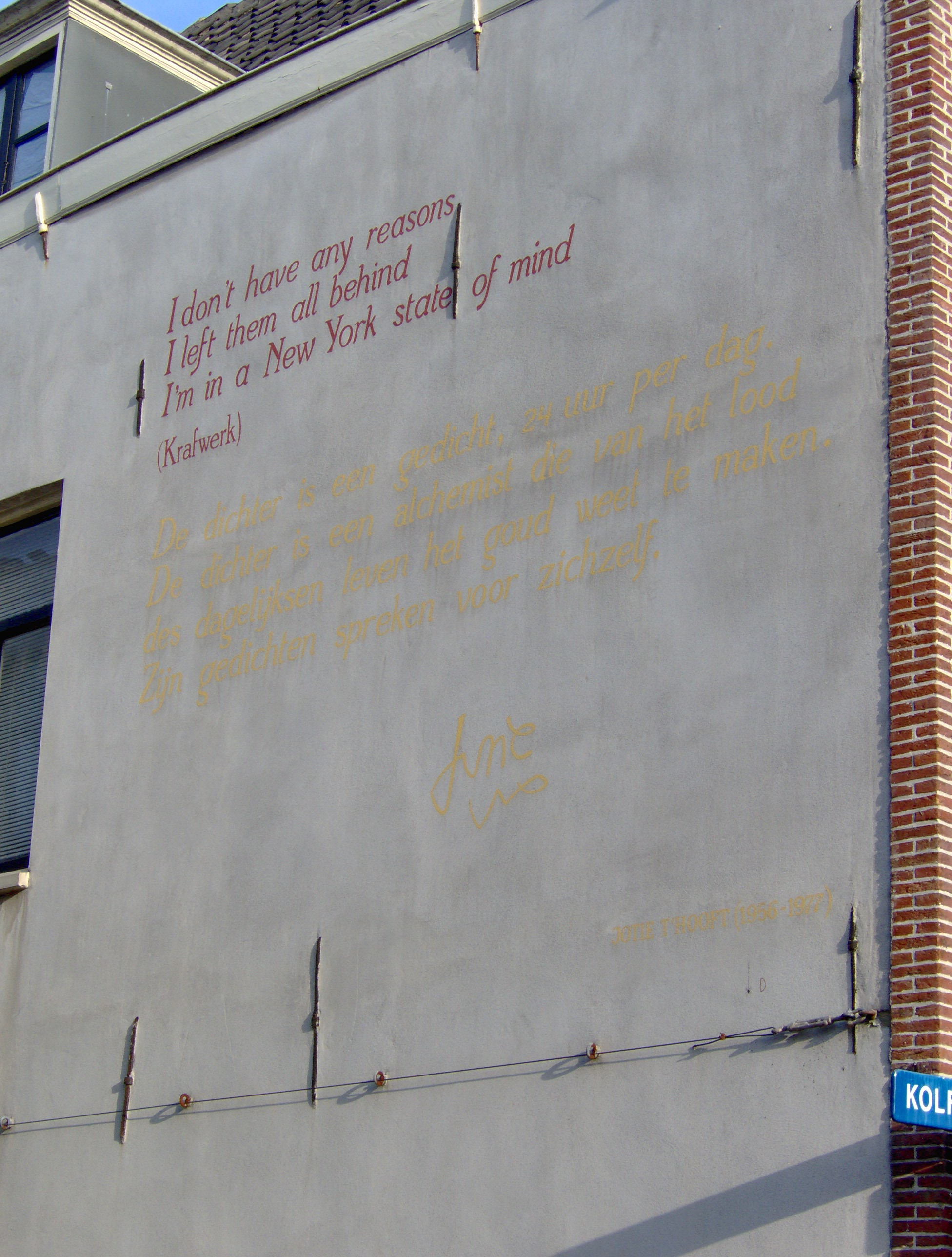 The poet De dichter is een gedicht of the Belgian writer Jotie T'Hooft on a wall of the building on the Rapenburg 91, Leiden, The Netherlands